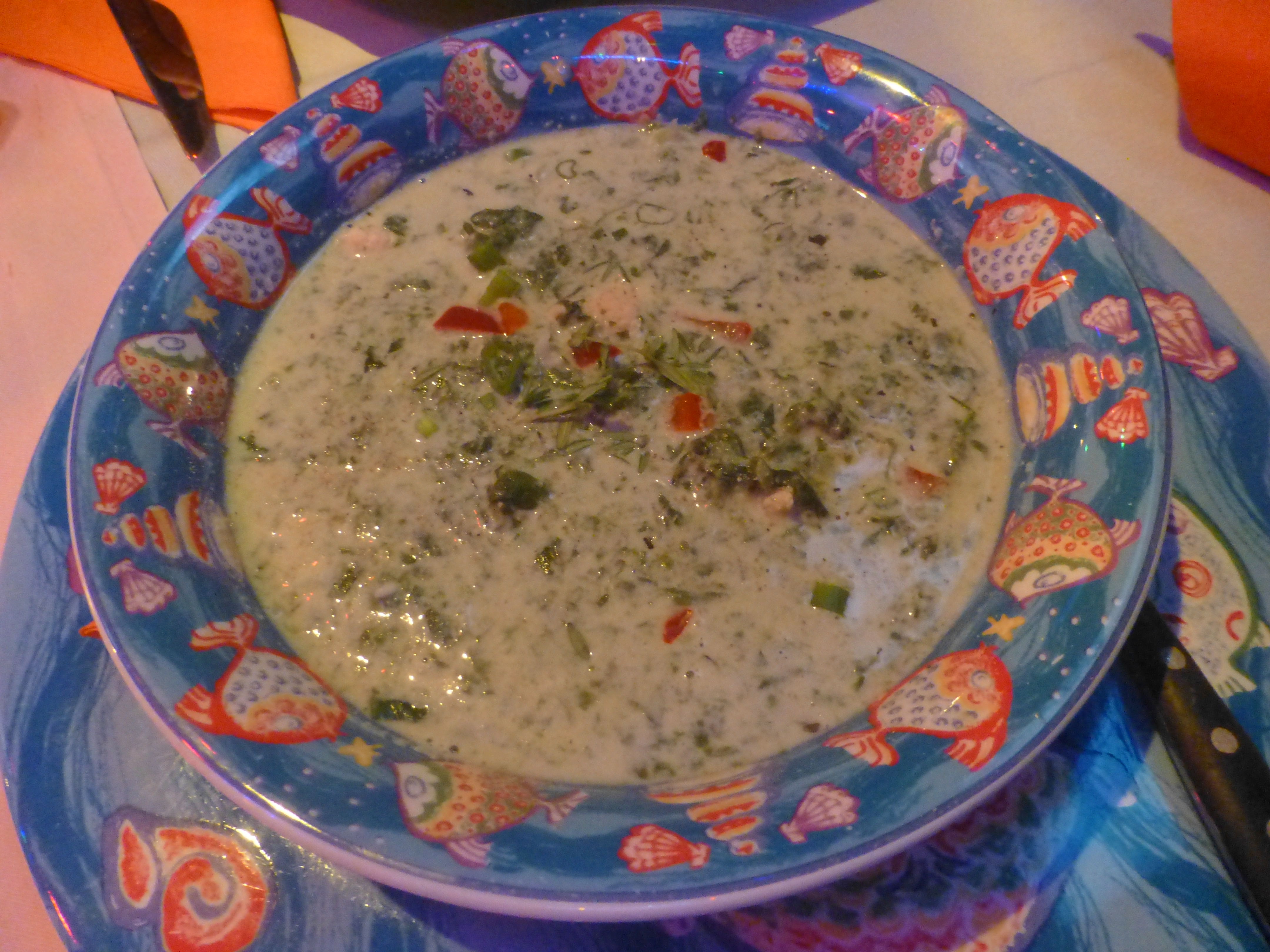 Callaloo as served in a Caribbean restaurant in Hamburg/Germany. Compared to the "original" Trinidadian callaloo (if there is an "original" one, lots of variations...) it is more souplike and contains a lot of coconut milk. The "original" is thicker and of a dark green, spinach-like colour.